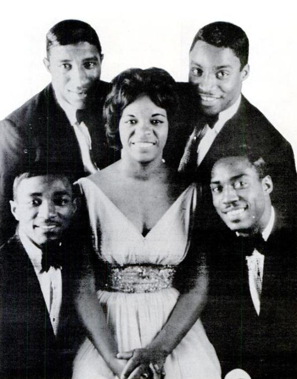 Trade ad for Ruby & the Romantics's single "Does He Really Care for Me".To better adapt it to his respective Wikipedia article, the ad was cropped and cleaned in a graphics editing program. The original can be viewed at the source below.